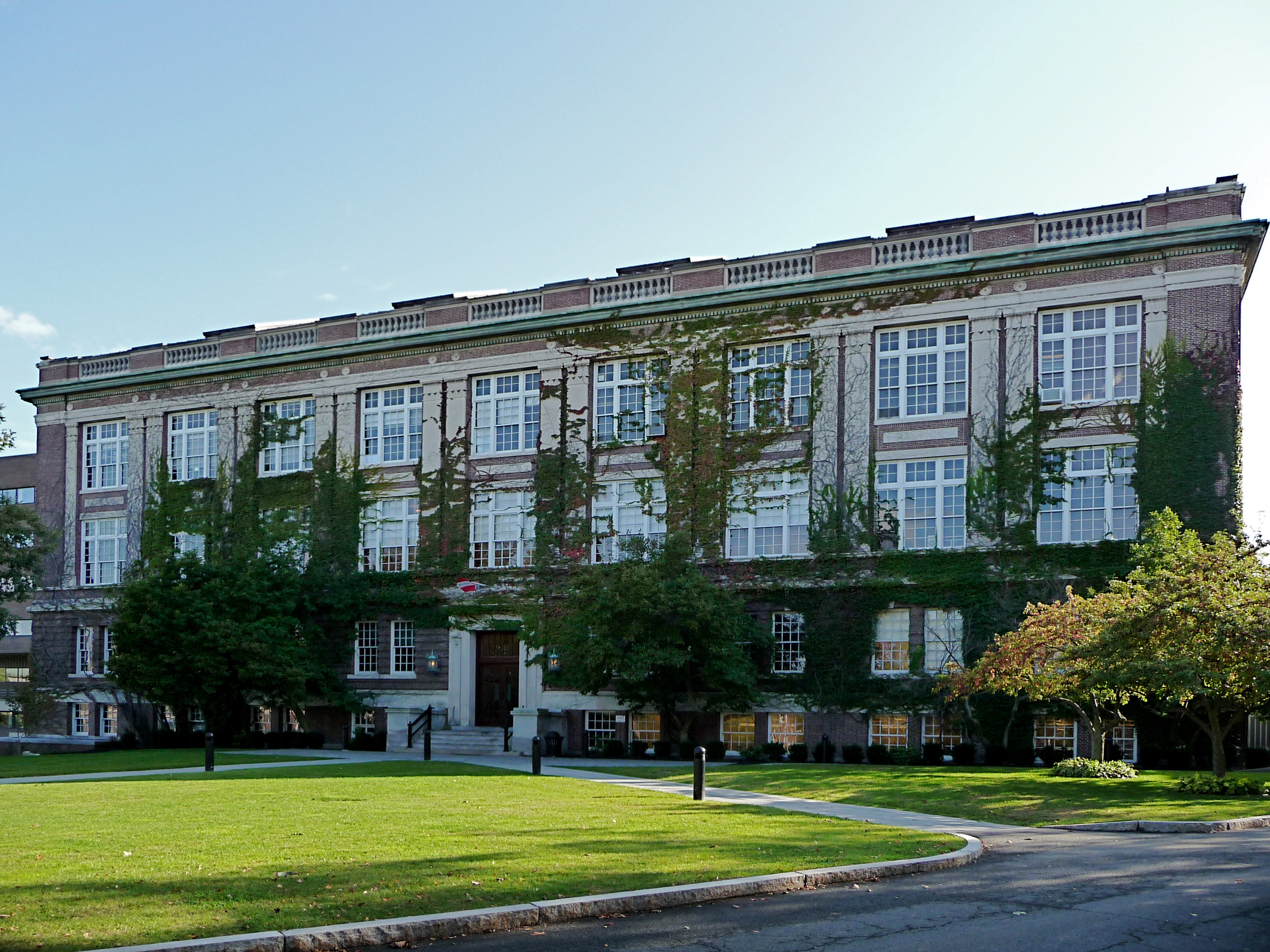 Greene Building on the campus of Rensselaer Polytechnic Institute in Troy, New York